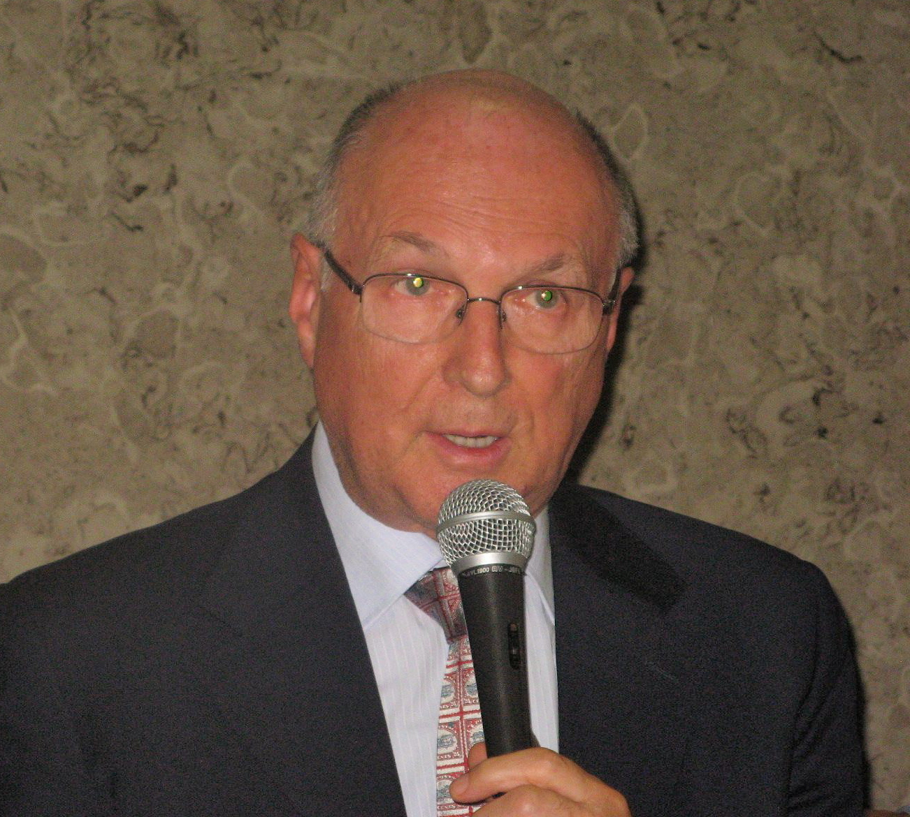 Livio Berruti in "Cavour" High School, in Turin, to celebrate the 50th anniversary of the Roman Olympics.